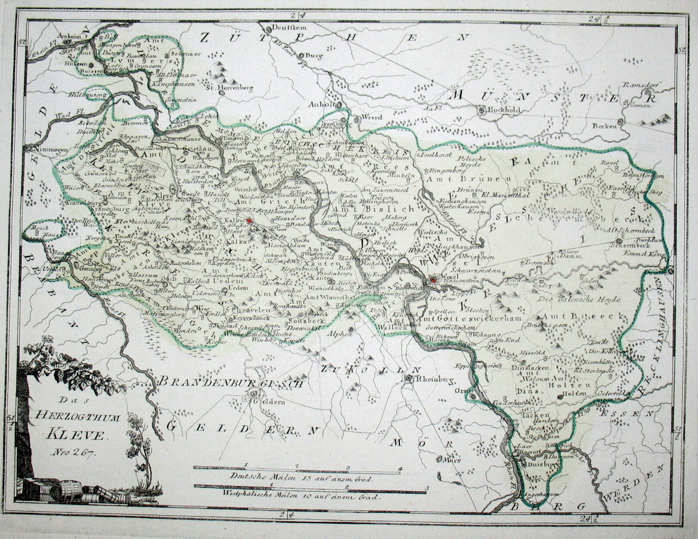 A map of the Duchy of Cleves, a State of the Holy Roman Empire. The Duchy's territory roughly covered the present-day German districts of Kleve (also called Cleves in English; northern part), Wesel and the city of Duisburg, as well as adjacent parts of the Limburg, North Brabant and Gelderland provinces in the Netherlands.